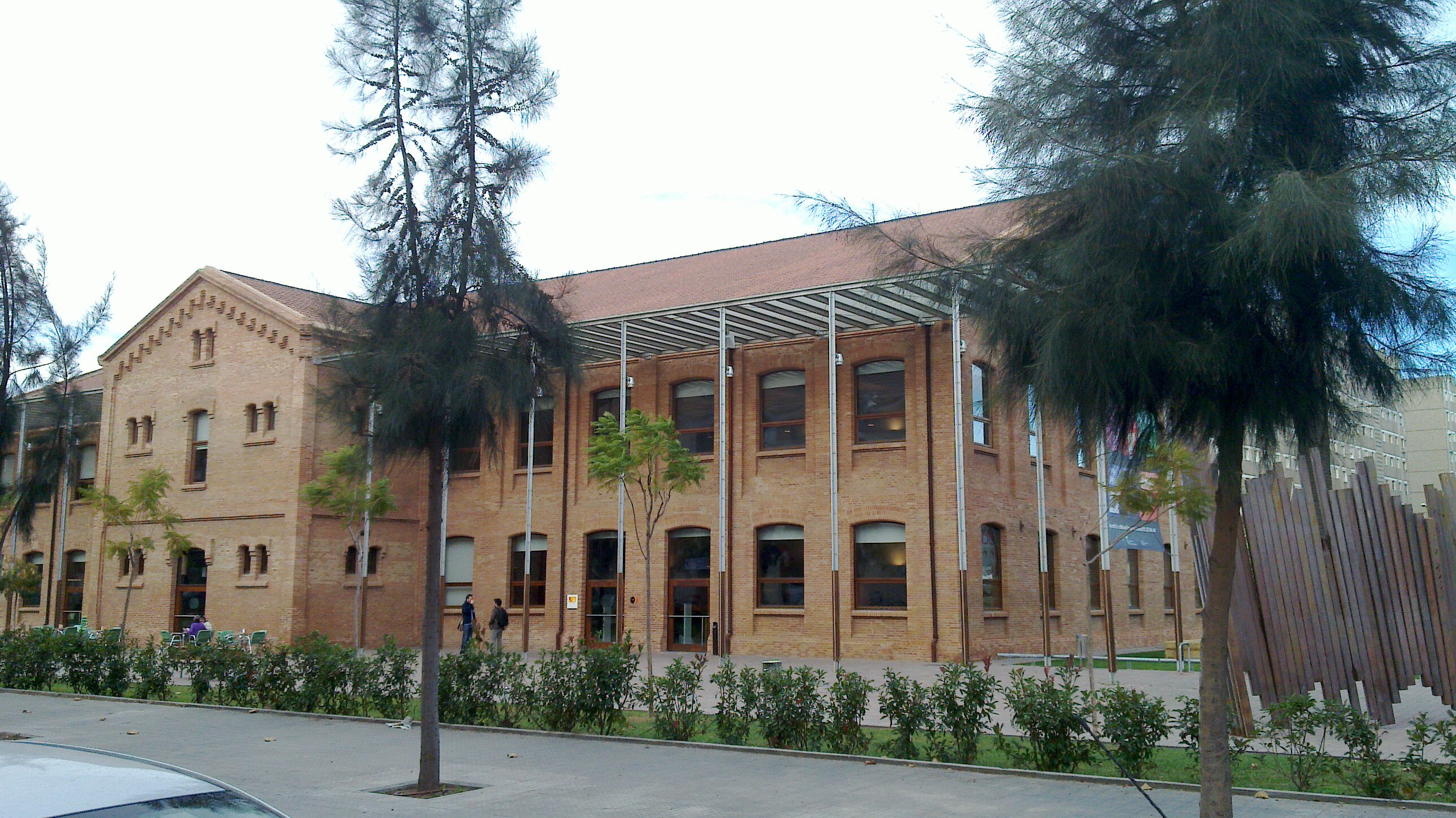 The former Can Suris Factory in Cornellà de Llobregat (Baix Llobregat), which now hosts Citilab-Cornellà, a citizen's digital laboratory focussing on research and innovation in society and Internet. The photo was taken during the Maemo-Barcelona Long Weekend.